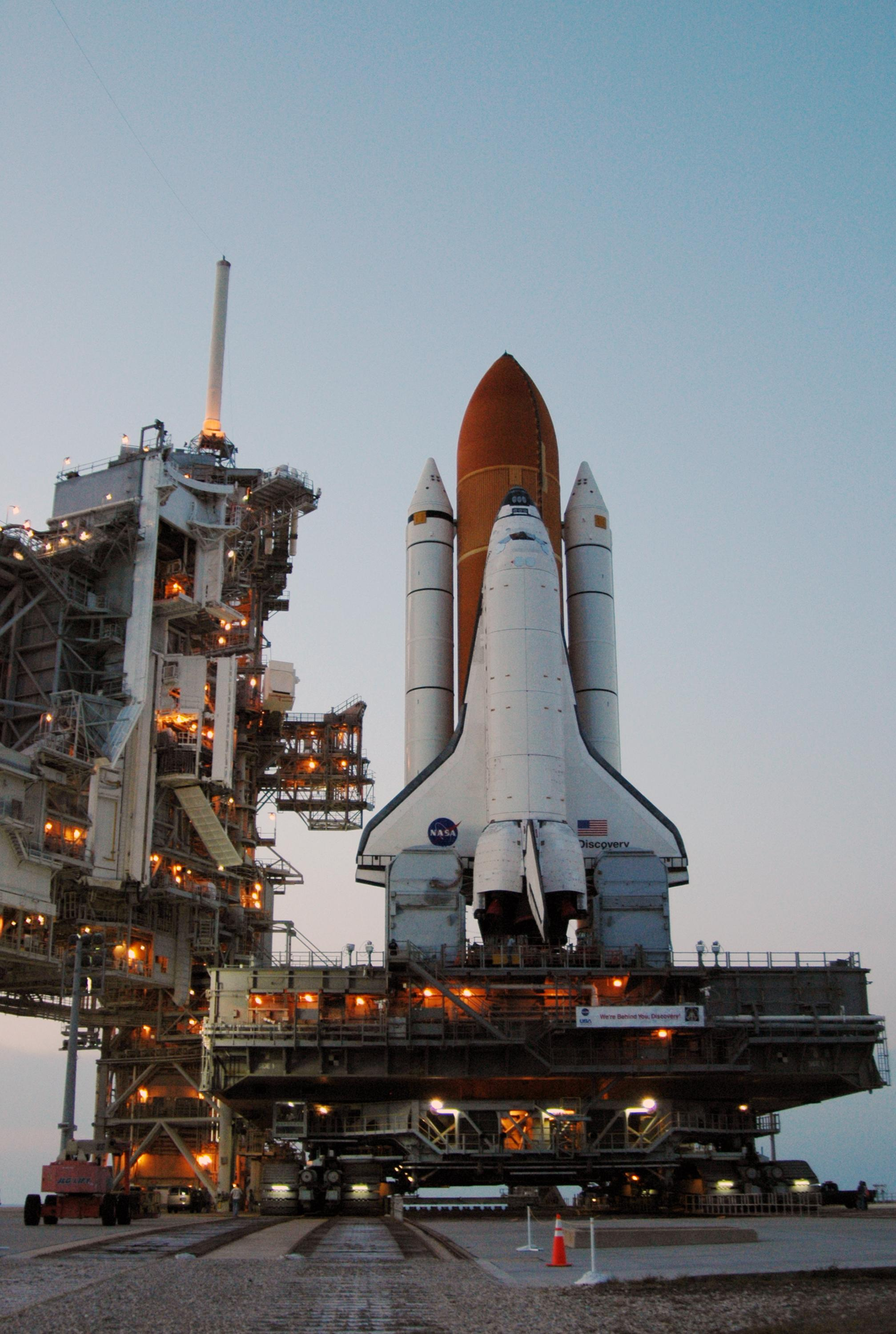 KENNEDY SPACE CENTER, FLA. -- Just before sunset, Space Shuttle Discovery arrives on the hardstand of Launch Pad 39B at NASA's Kennedy Space Center. First motion was at 12:45 p.m. EDT. The shuttle rests on a mobile launcher platform and made the 4.2-mile journey from the Vehicle Assembly Building via the crawler-transporter beneath the platform. The rollout is an important step before launch of Discovery on mission STS-121 to the International Space Station. First motion of the shuttle leaving NASA's Vehicle Assembly Building was at 12:45 p.m. EDT. Discovery's launch is targeted for July 1 in a launch window that extends to July 19. During the 12-day mission, Discovery's crew will test new hardware and techniques to improve shuttle safety, as well as deliver supplies and make repairs to the station. Photo credit: NASA/Ken Thornsley